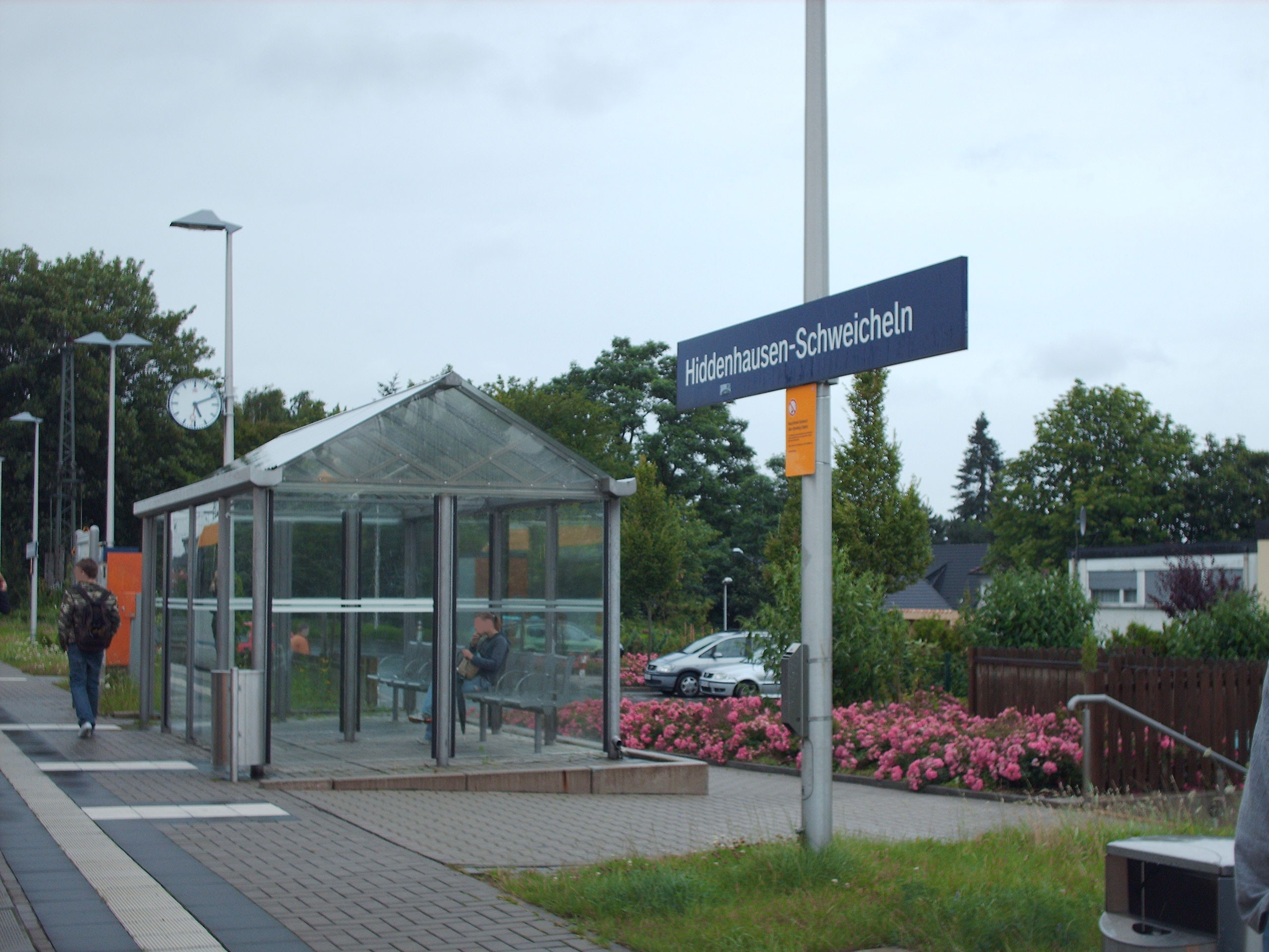 Hiddenhausen-Schweicheln station, town of Hiddenhausen, District of Herford, North Rhine-Westphalia, Germany. check usage